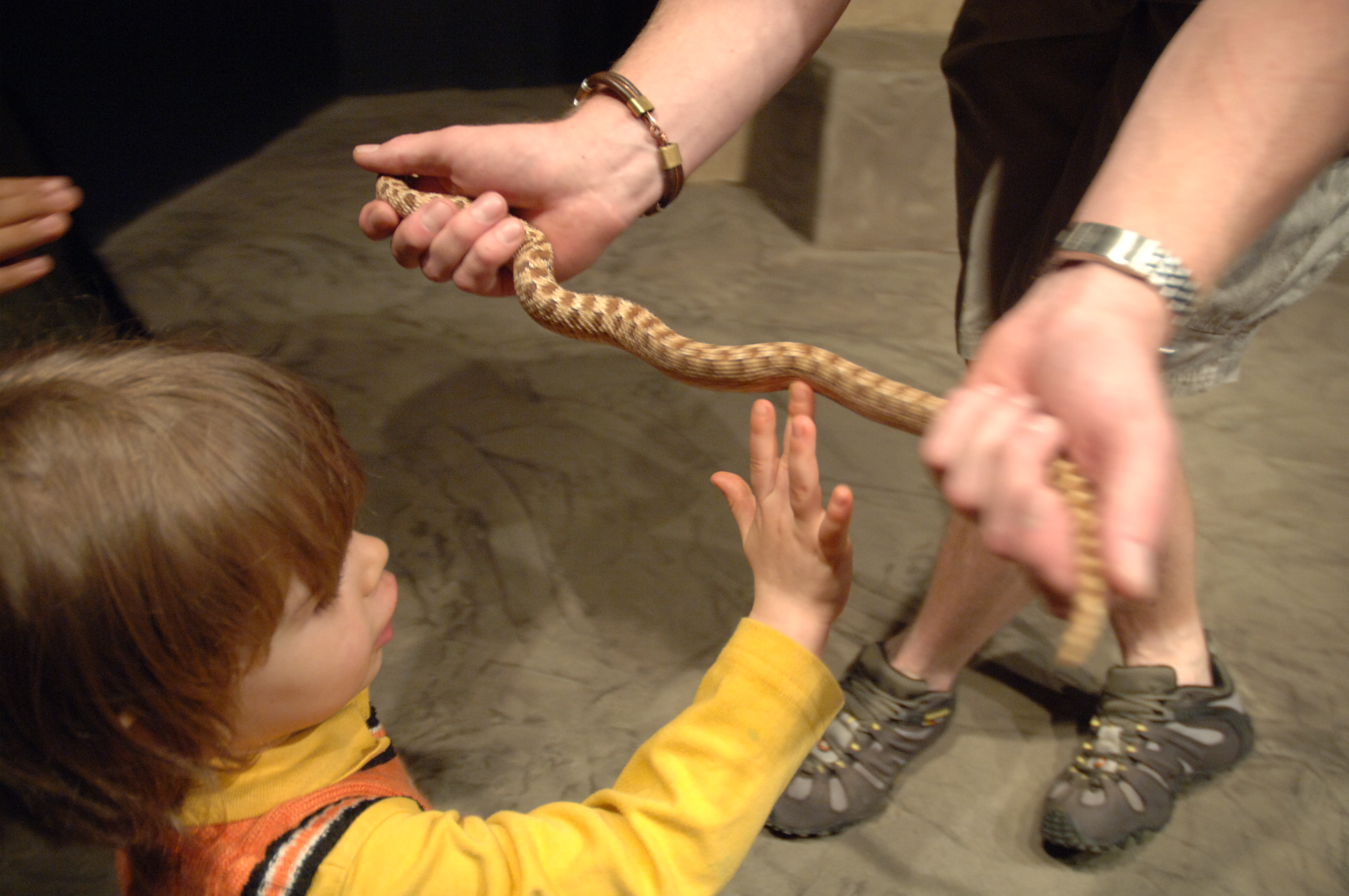 Audience members are invited to examine live reptiles up close.